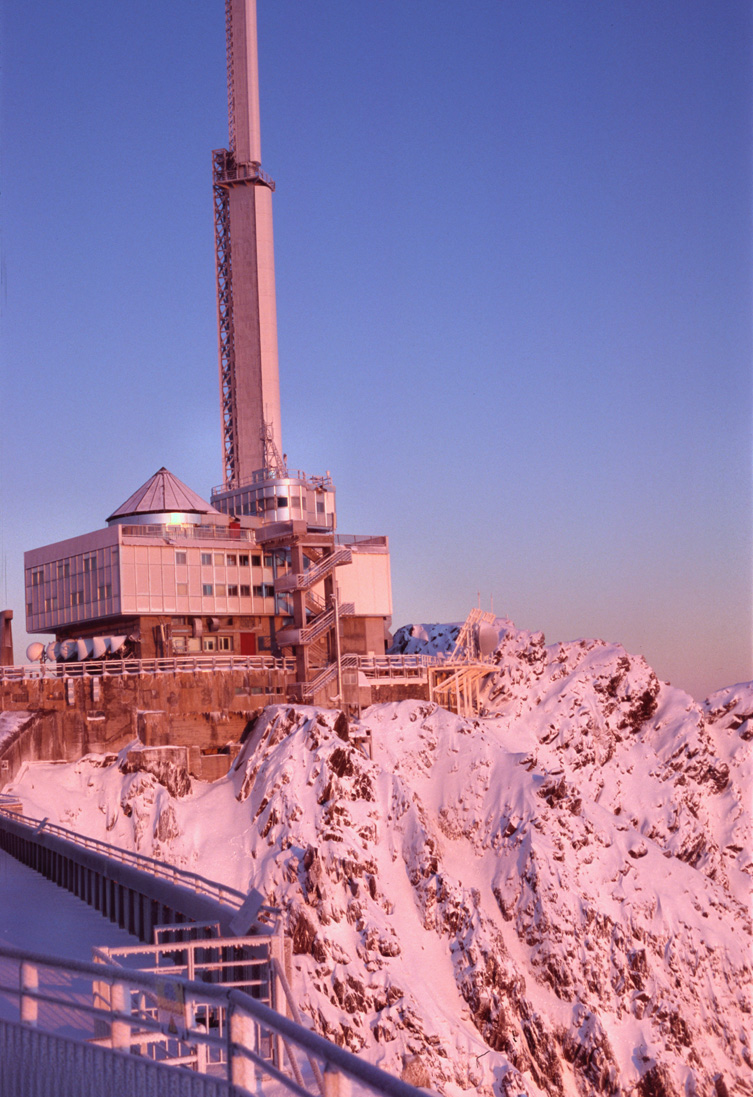 Pic du Midi, Hautes-Pyrenees (65), France